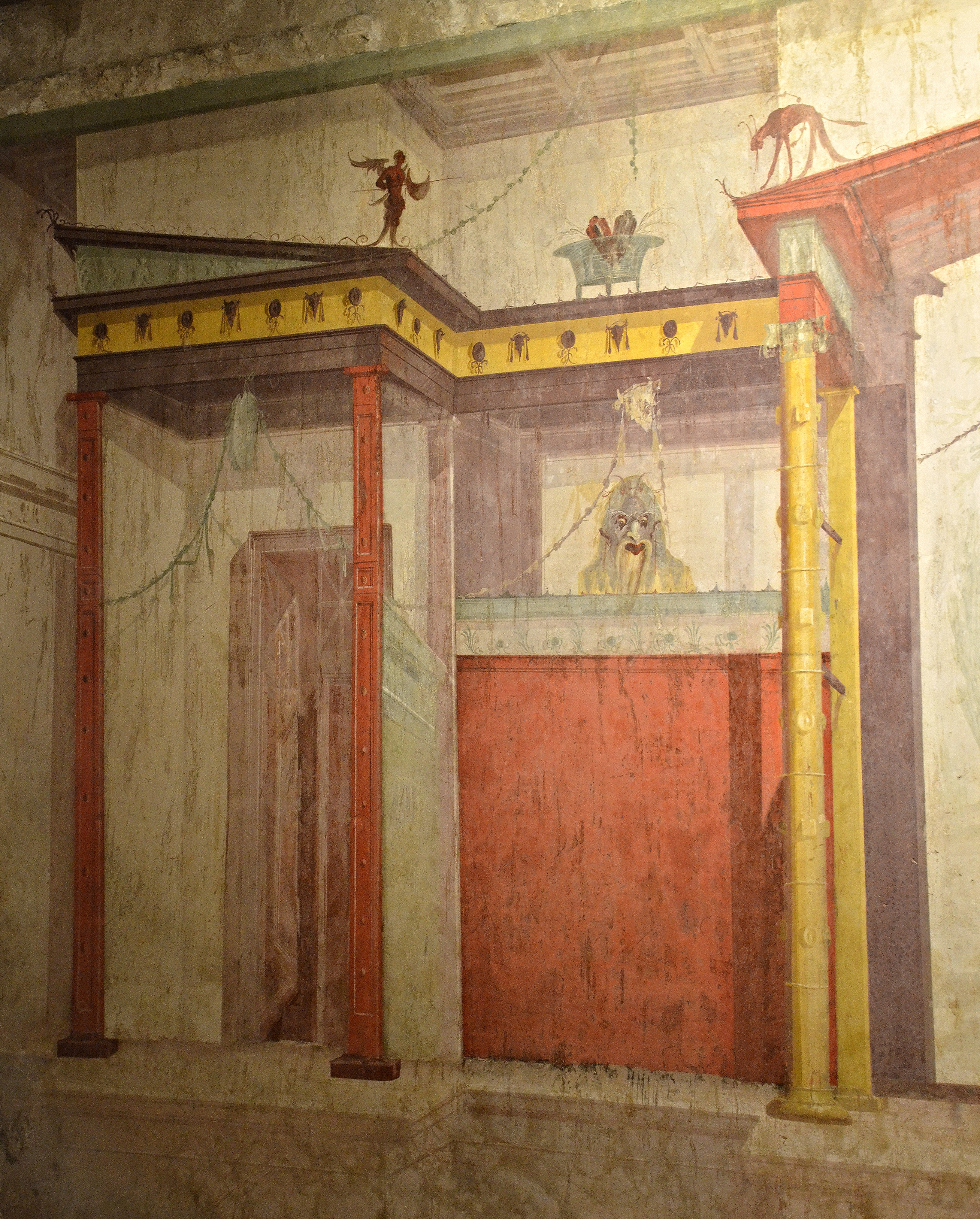 House of Augustus (Domus Augusti), South wall of the Mask Room, 2nd Pompeian style, Palatine Hill, Rome